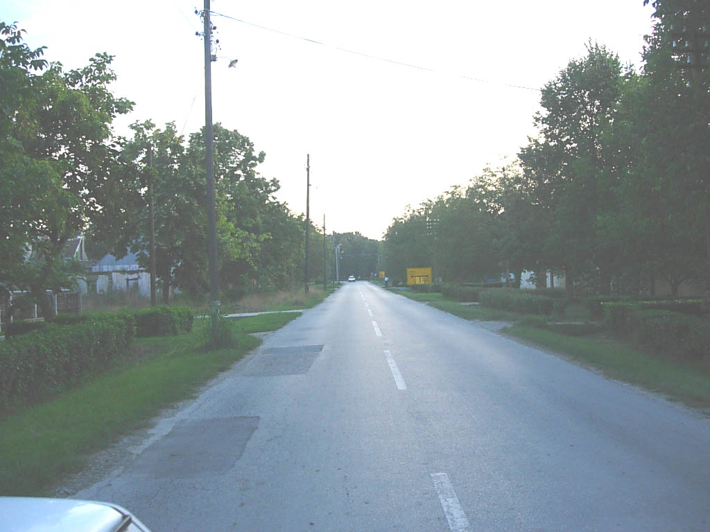 Street detail in Opovo.